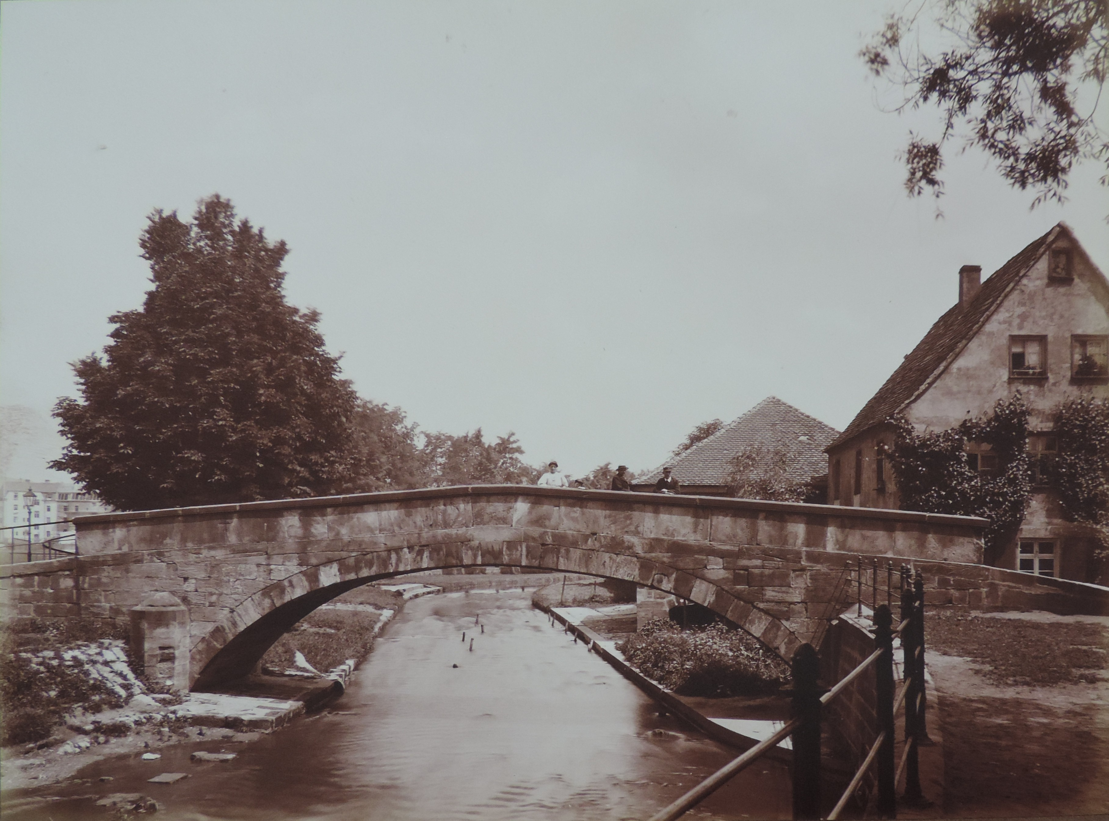 Views and photos of Bayreuth, Germany, gifted to Ferdinand I of Bulgaria to commemorate his 25-year rule. Bridge over Red Main.